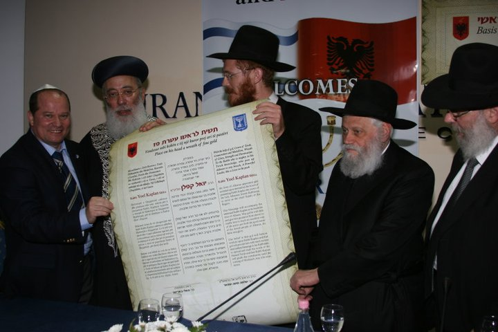 Signing The Agreement